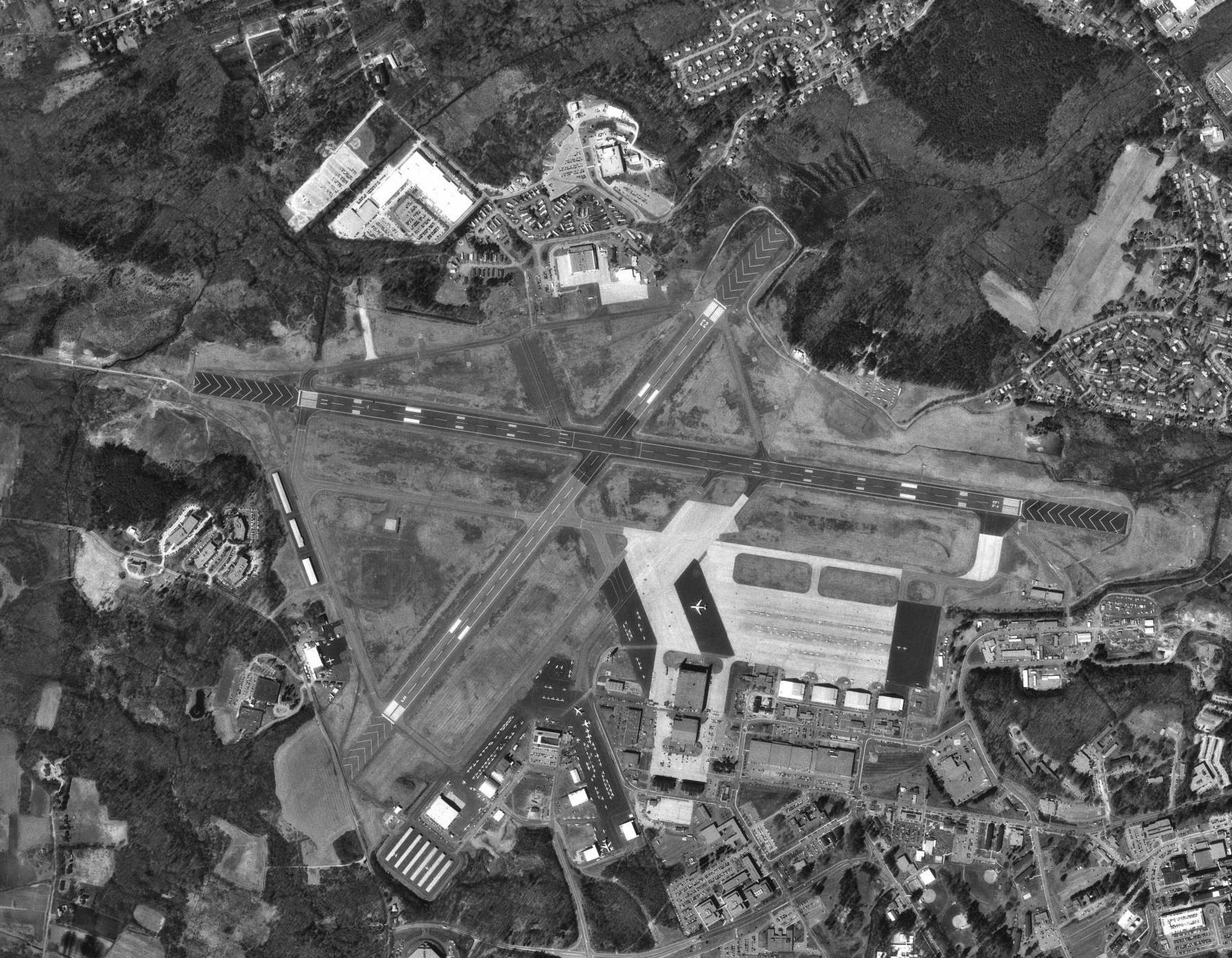 USGS digital orthophoto of Hanscom Field and Hanscom Air Force Base in Bedford, Massachusetts, United States